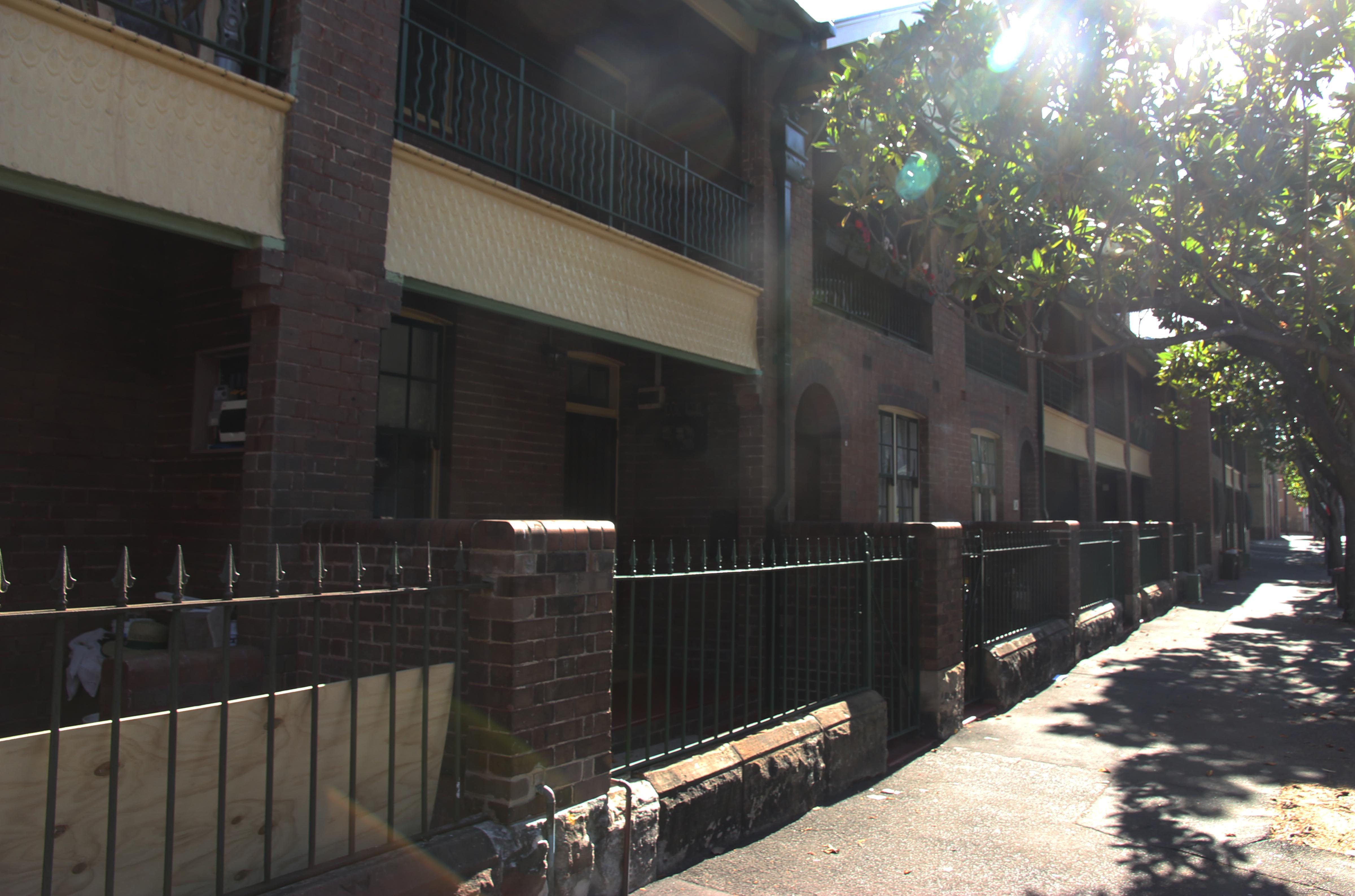 1-63 Windmill Street, Millers Point in the City of Sydney, New South Wales, Australia